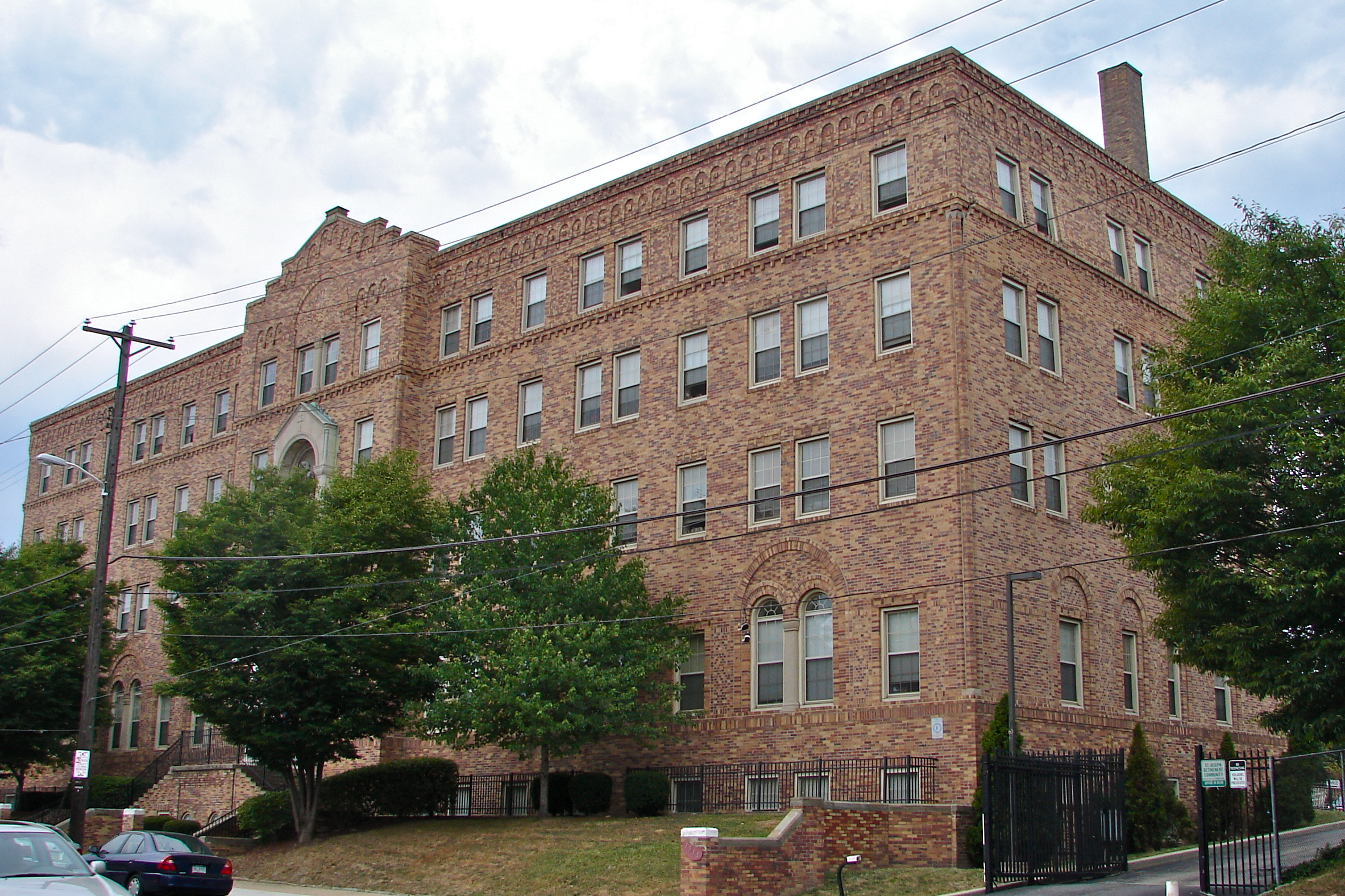 St. Joseph's House for Homeless Industrious Boys on the NRHP since October 24, 1996. At 1511 and 1515–1527 Allegheny Ave. in the Nicetown–Tioga neighborhood of North Philly.